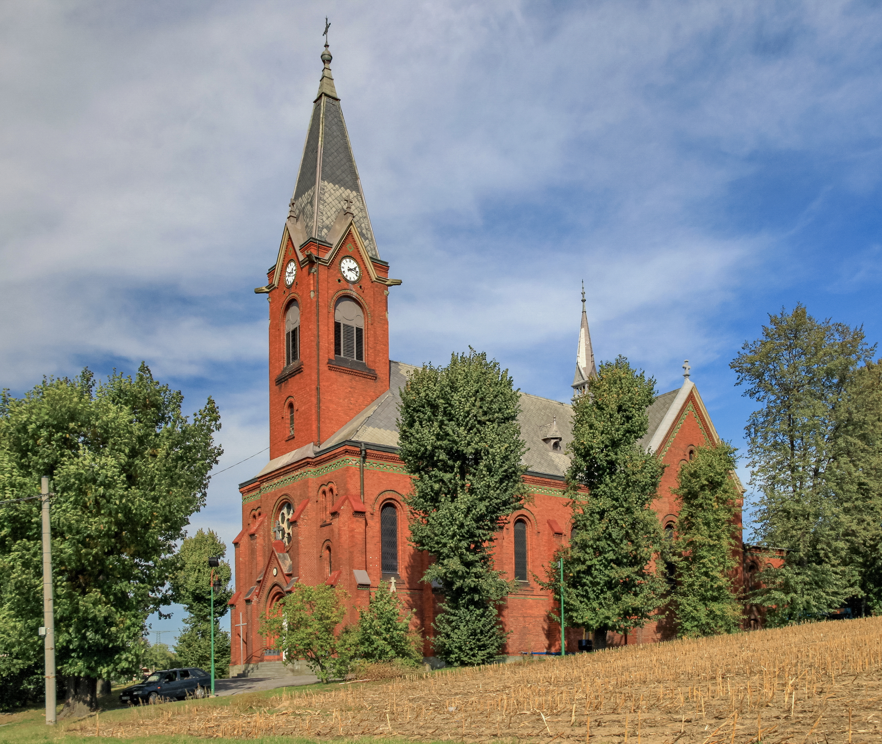 Church of Saint Mary Magdalene. Stonava, Moravian-Silesian Region, Czech Republic.